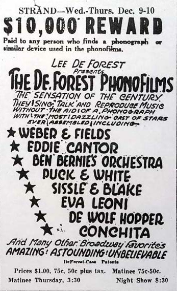 Newspaper advertisement for screening of several short films produced by DeForest Phonofilms at the Strand Theater of Biloxi, Mississippi.